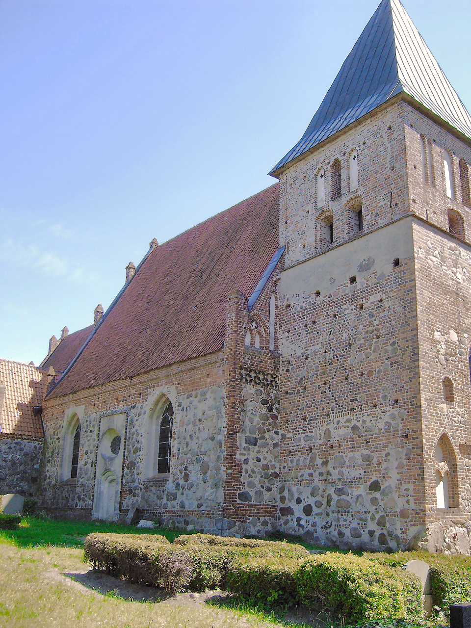 The church of Bobbin